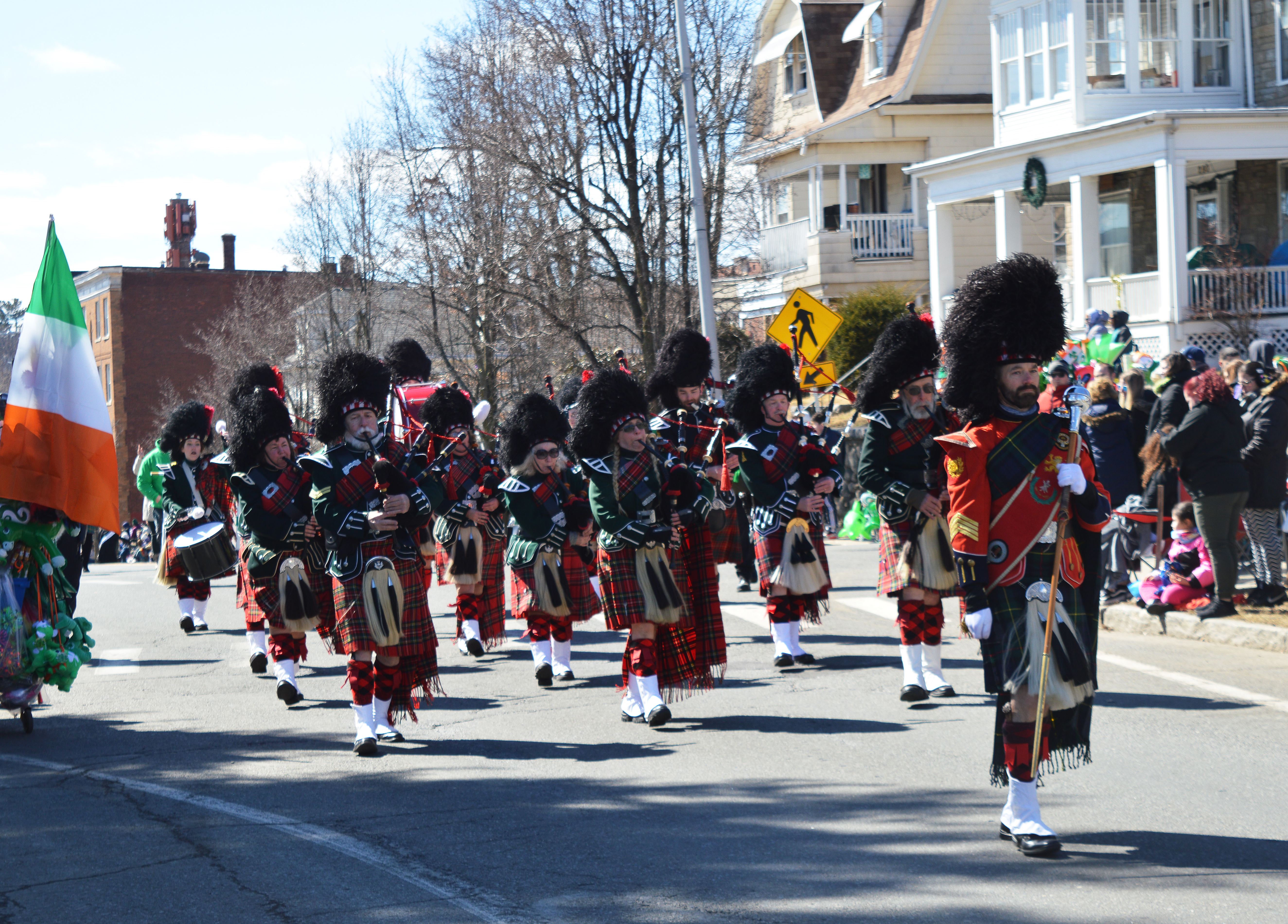 The Holyoke Caledonian Pipe Band performing in the 2019 Holyoke Saint Patrick's Day Parade, leading the Grand Marshal.